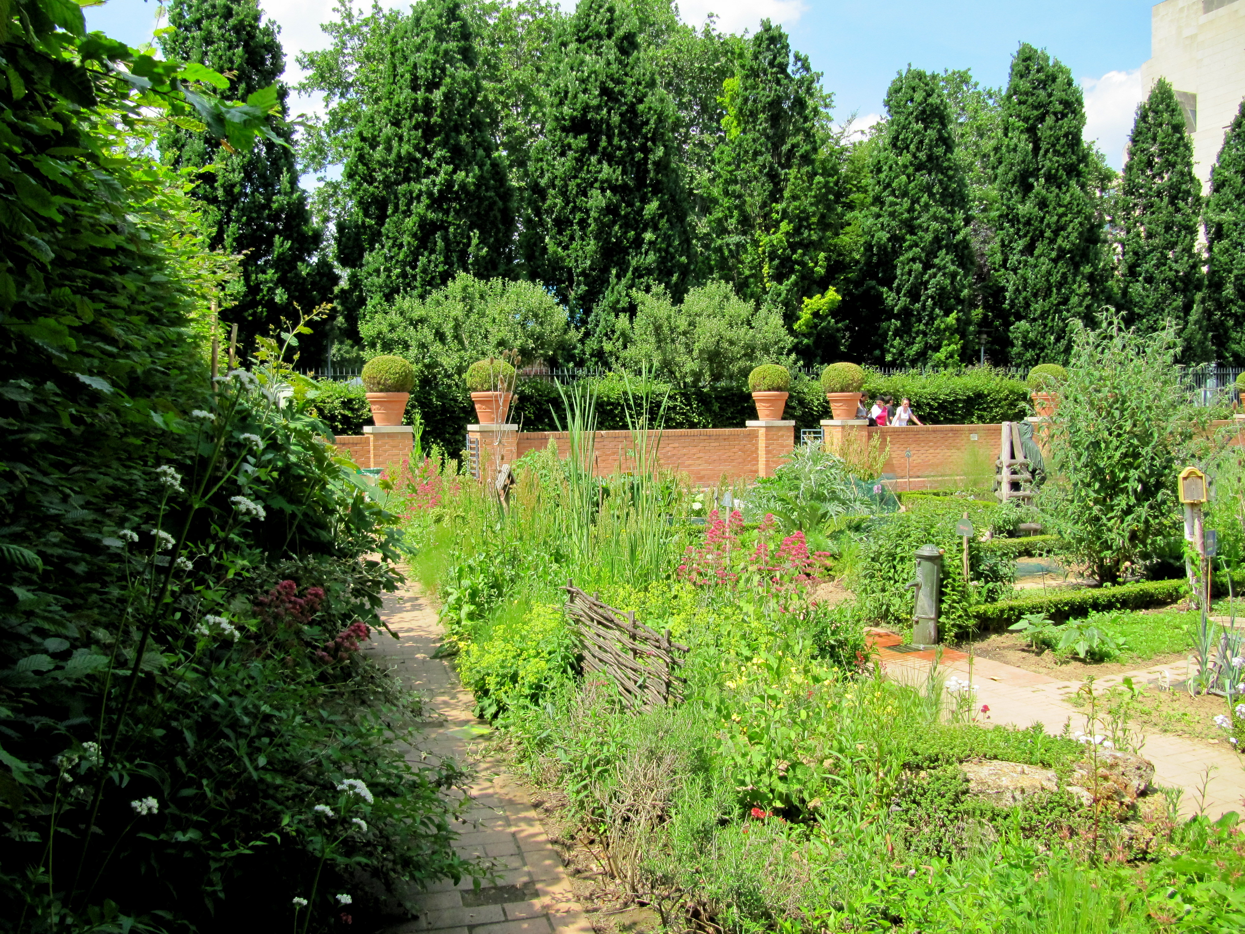 Garden in Paris Bercy